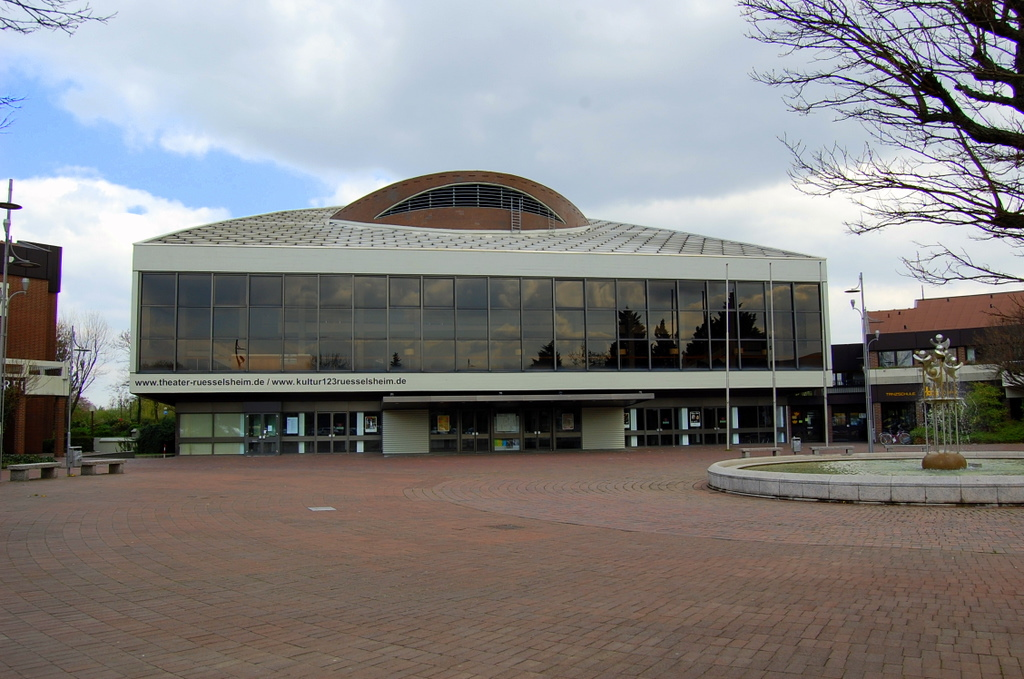 Theatre of Rüsselsheim (Germany)